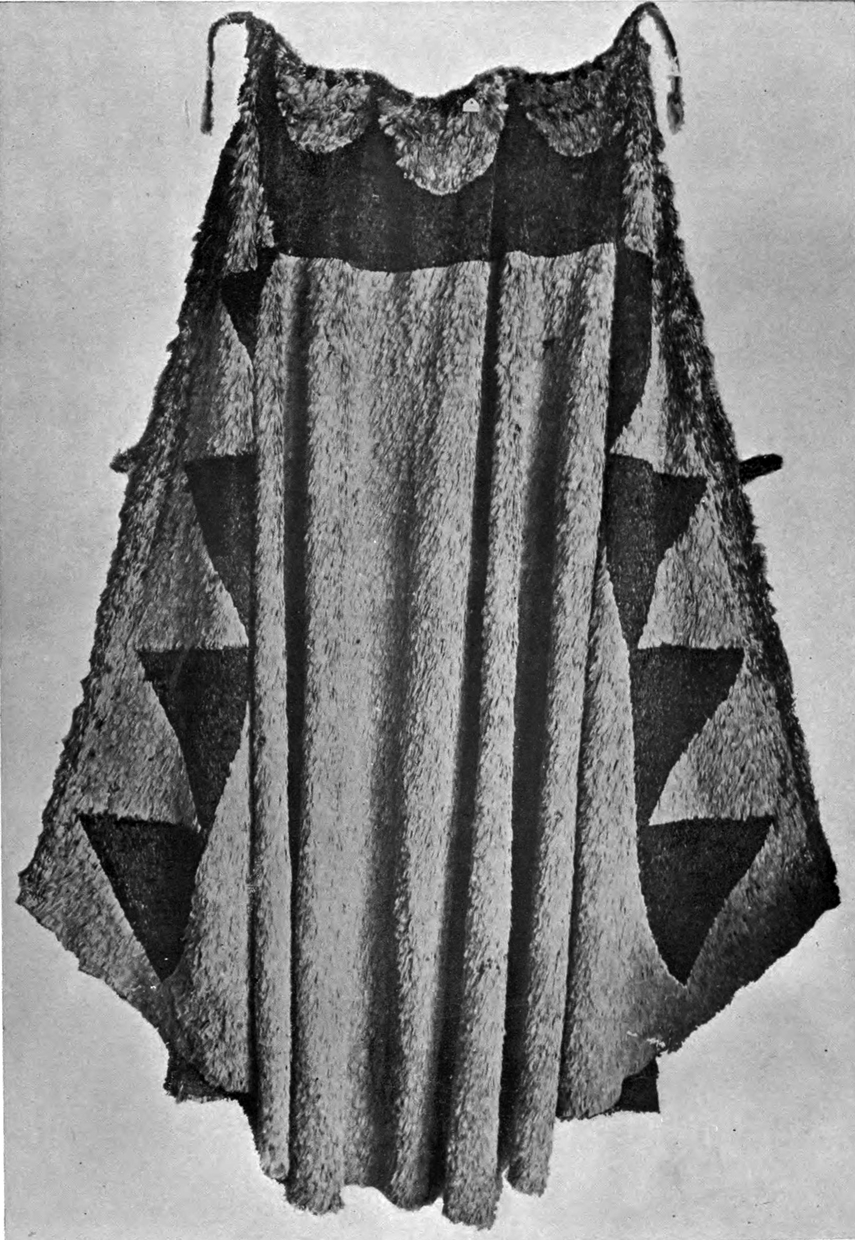 Cloak of ʻōʻō {Acrulocercus nobtlis) decorated with triangles of ʻiʻiwi (Vestiaria coccinea). Plate X. This is of the same age as the preceding and belonged to Kīwalaʻō, son of Kalaniʻōpuʻu, and a brave warrior, slain by Kamehameha who thus obtained the cloak. In late years it has been called "the Queen's Cloak" and has been placed over the Queen's throne on public occasions. Length, 60 inches; width at base, 144 inches; front edges, 50.7 inches. The nae is composed of more than thirty pieces, of irregular form and varying fineness, Fig. 48, and the cloak seems to have been made up of the ruins of many other fabrics much as the choice products of Kashmir are fitted piece to piece of many an ancient shawl. The network is shown on a larger scale in Plate XI. At the fall of the Hawaiian Monarchy this, with Nos. 1, 3 and 4, came to the Bishop Museum where it is numbered 6829.